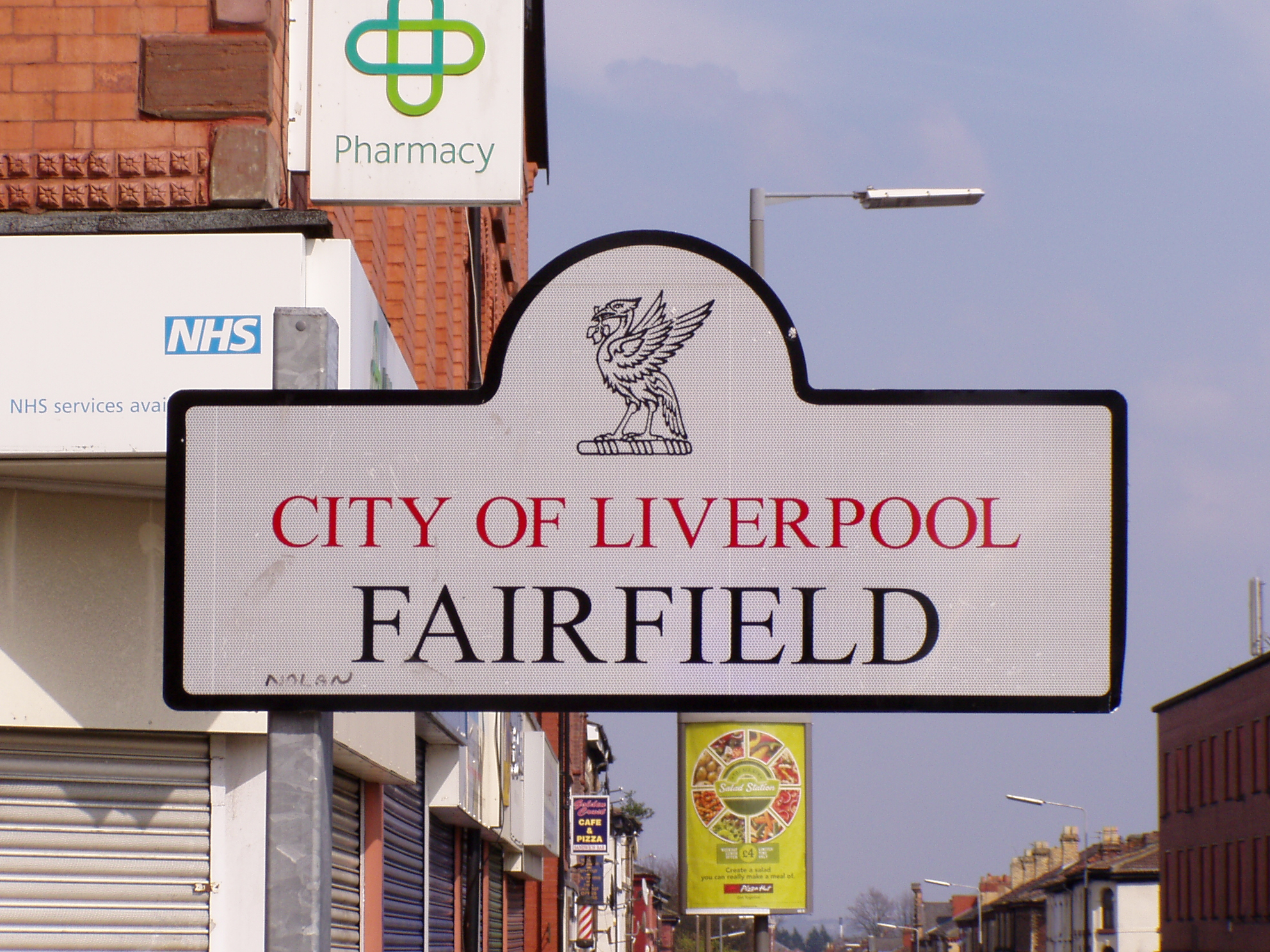 Liverpool City Council SIgn for the area of Fairfield